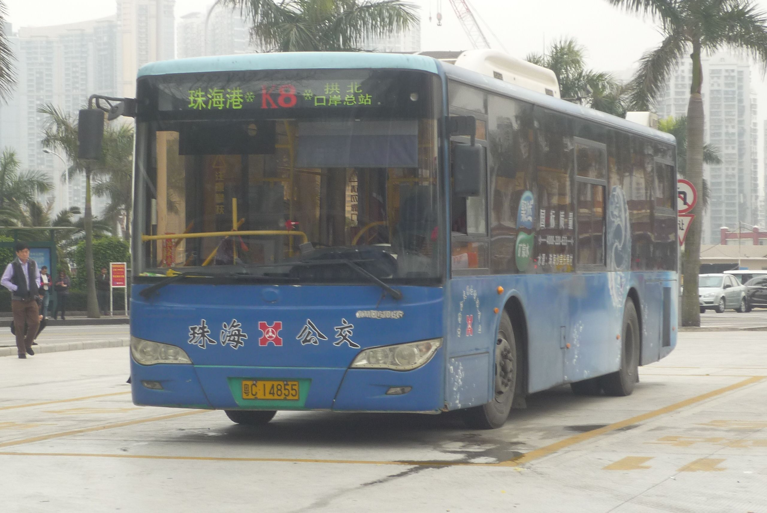 Zhuhai Bus Route K8